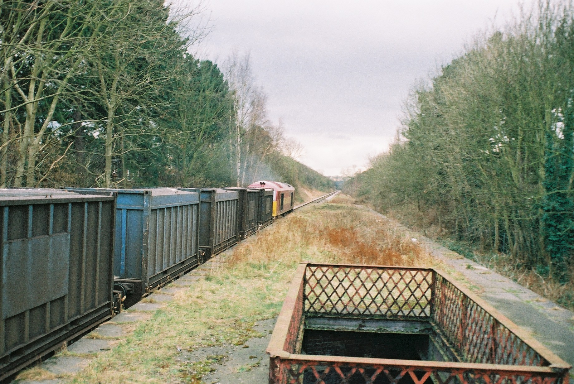 A train of empty gypsum containers passes through the disused East Leake station Photo taken by me, 2005-02-02